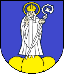 Coat of arms of Saint-Brais, Canton of Jura, SwitzerlandEsperanto: Blazono de Saint-Brais, Ĵuraso, Svislando